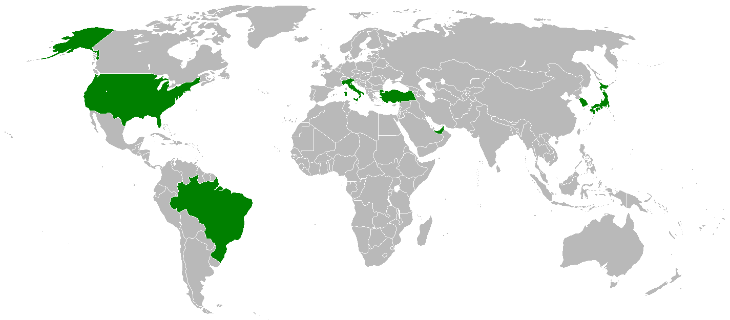 Eataly worldwide